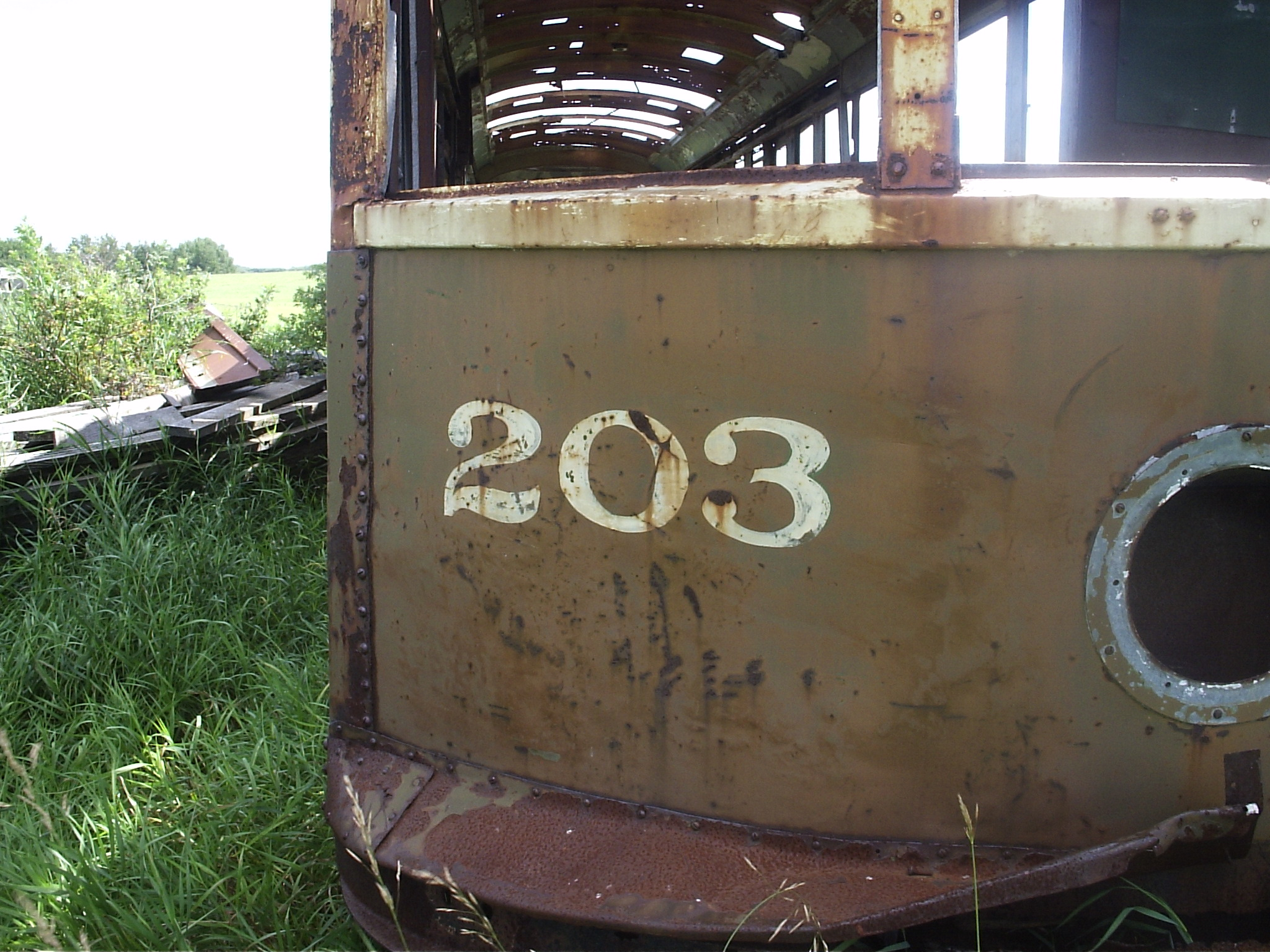 Saskatoon Municipal Railway streetcar No.203 at Saskatchewan Railway Museum.